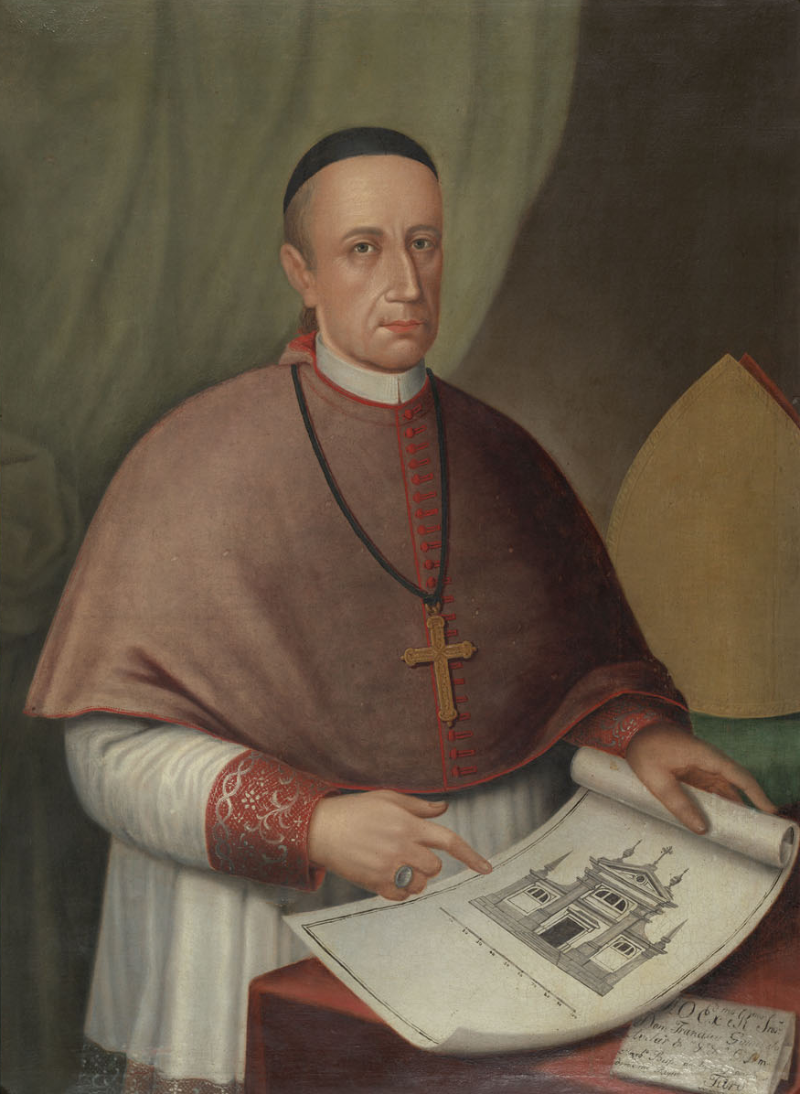 1816 portrait painting of Francisco Gomes de Avelar, Bishop of the Algarve, by Joaquim José Rasquinho (1736-1822)